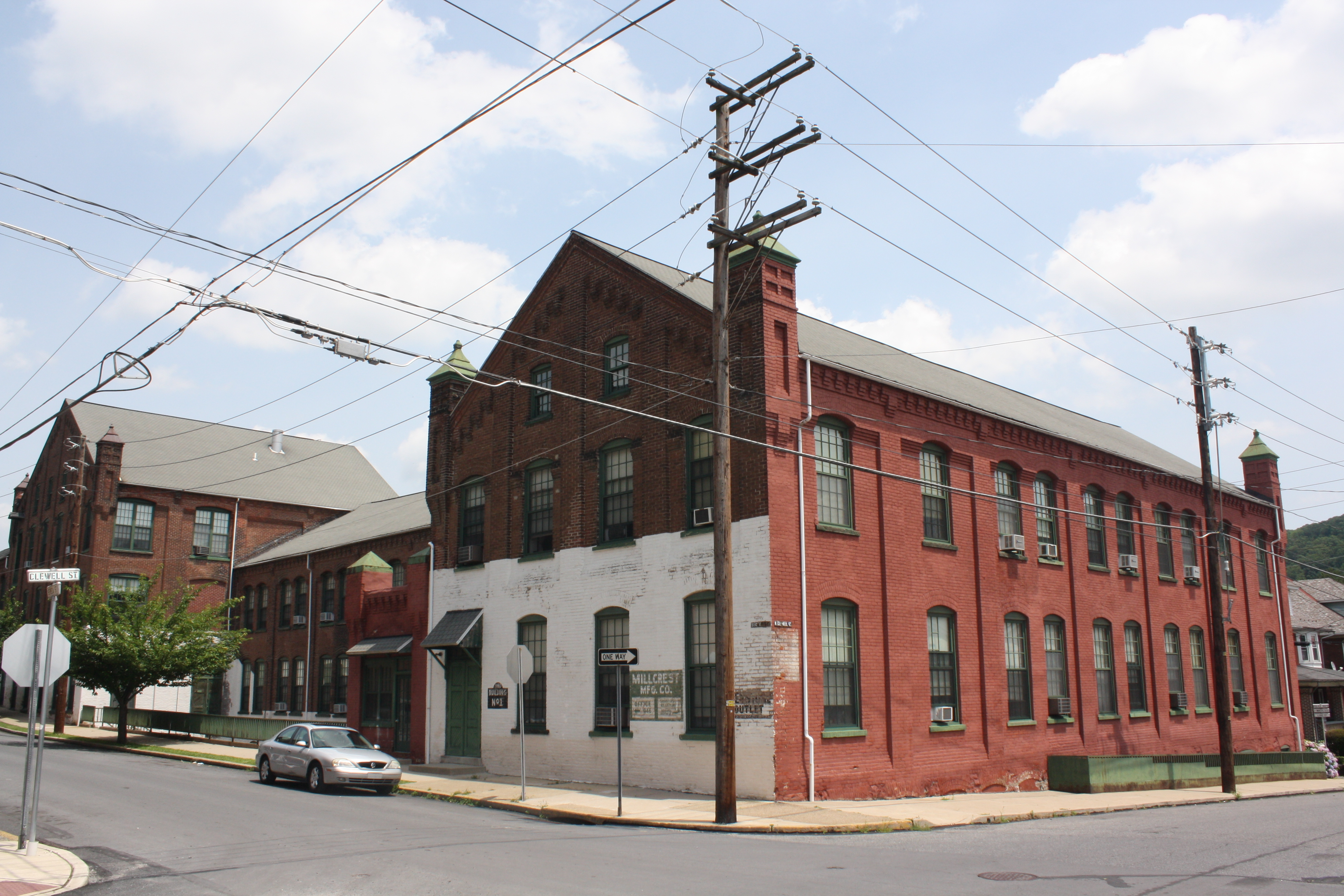 Lipps & Sutton Silk Mill is one of the Lehigh Valley Silk Mills, a historic silk mill complex located at Fountain Hill, Northampton County, Pennsylvania.